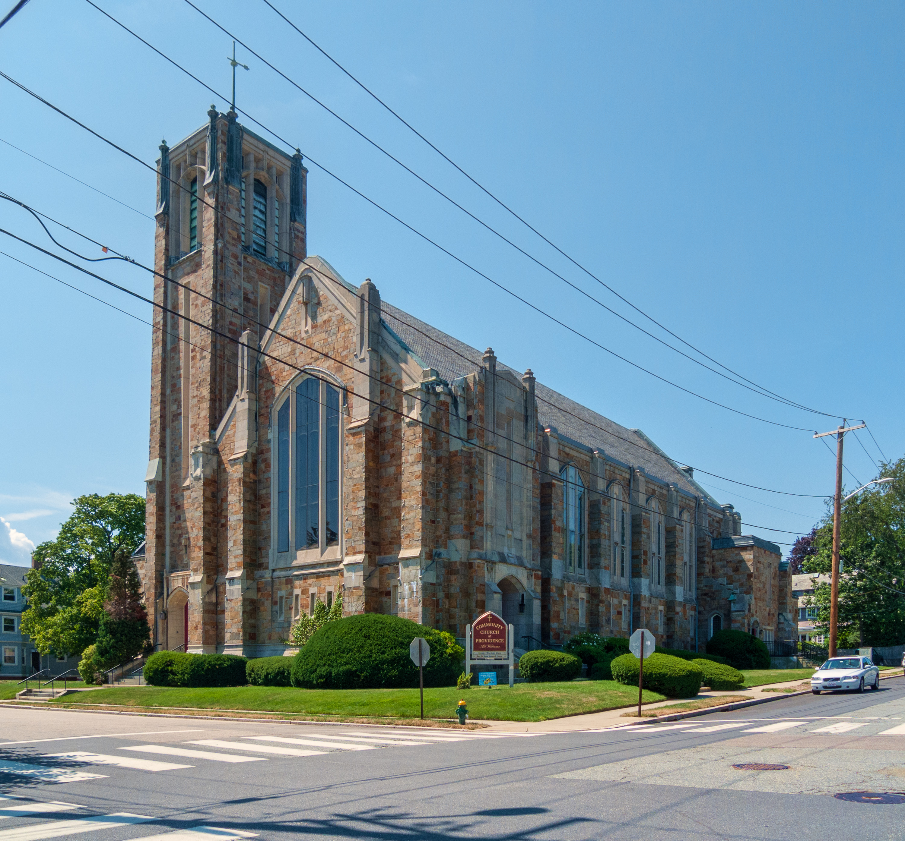 Community Church of Providence, 372 Wayland Avenue, Providence. Founded as Second Baptist Church of Providence in 1805. Previous names include Pine Street Baptist Church and Central Baptist Church. In 1917 the congregation moved into the present building.